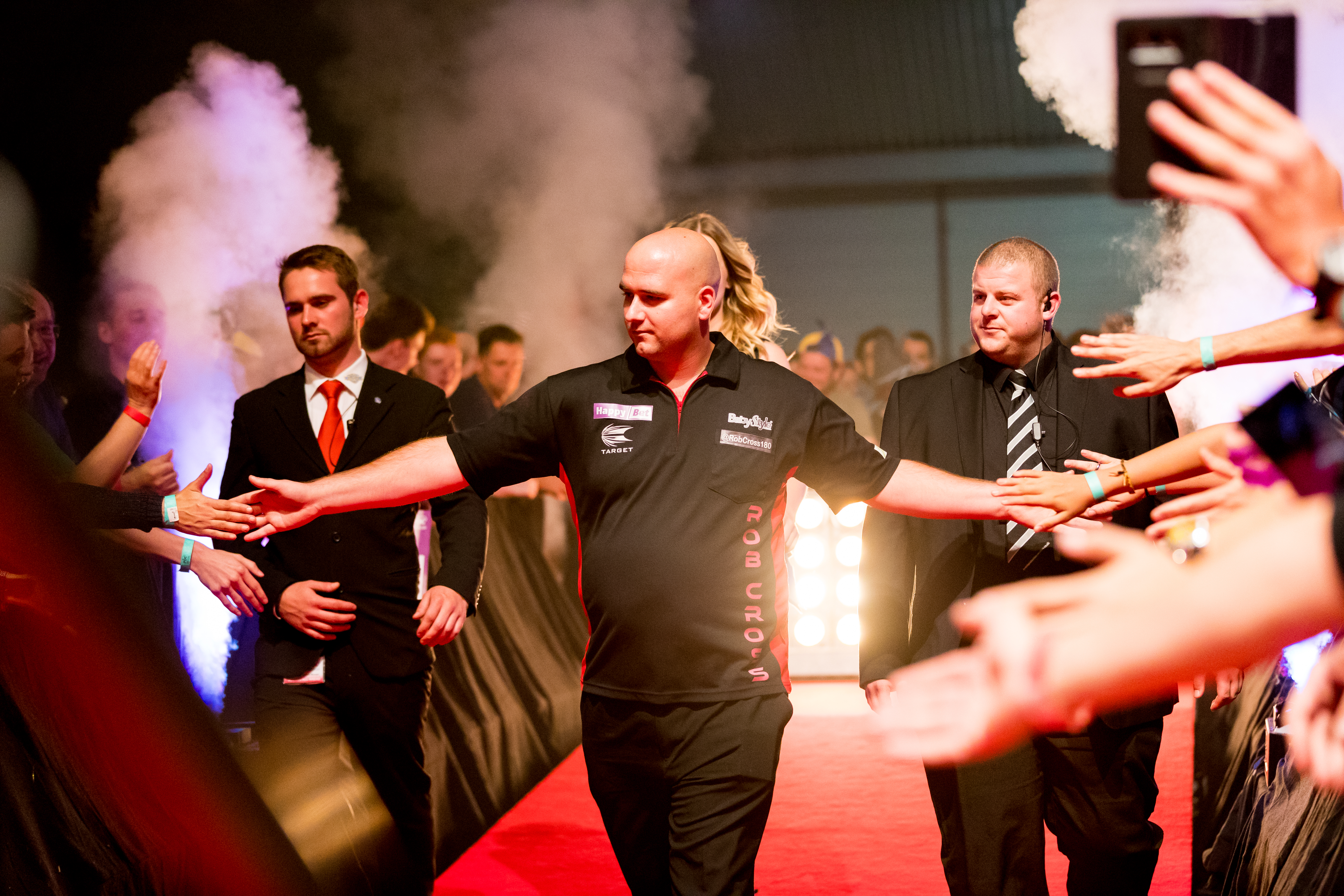 [14] Rob Cross (ENG) 6:2 [11] Ian White (ENG) during Professional Darts Corporation (PDC), German Darts Grand Prix (GDGP) at Maimarkthalle, Mannheim, Baden-Württemberg, Germany on 2017-09-10, Photo: Sven Mandel